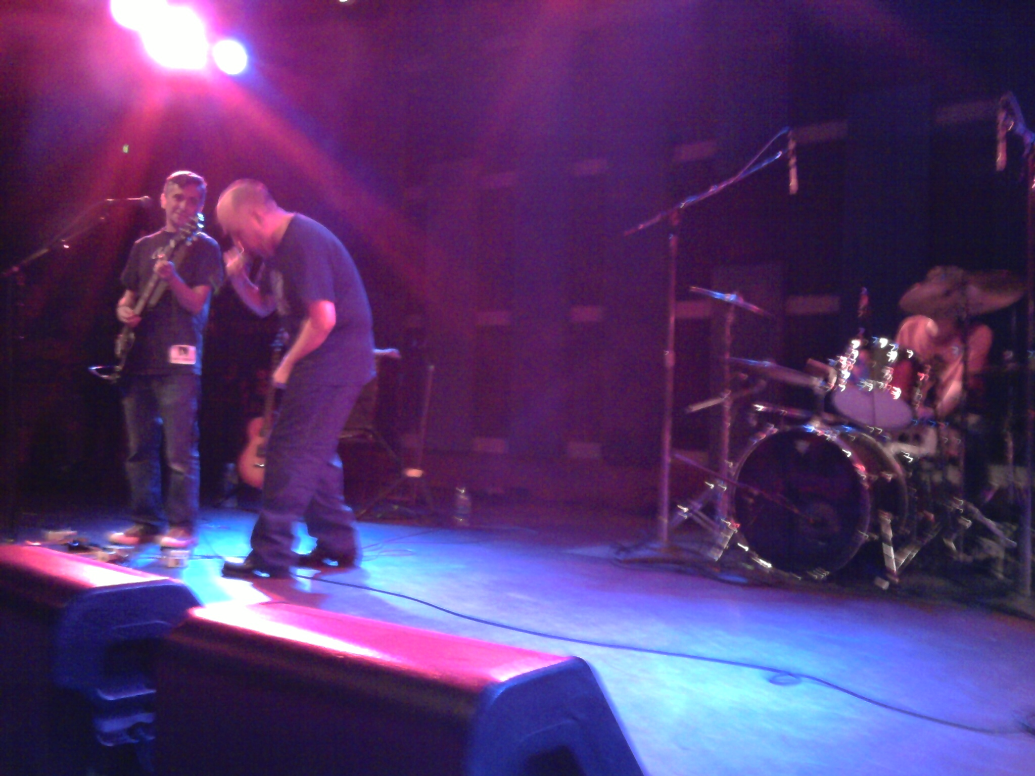 Dead Milkmen live at World Cafe live, Philadelphia, 9/24/10